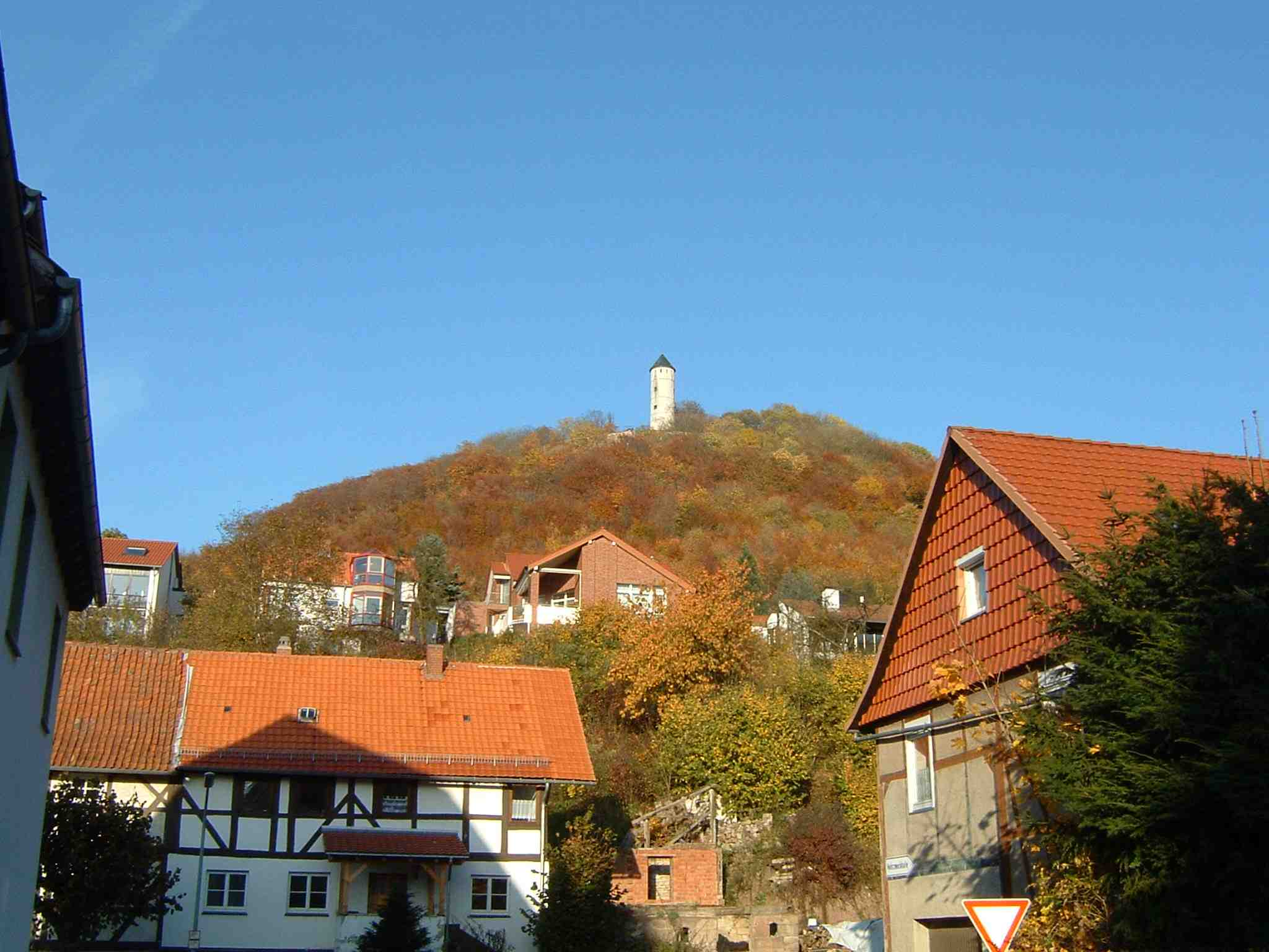 Description: – Plesse Castle, near Göttingen, Germany